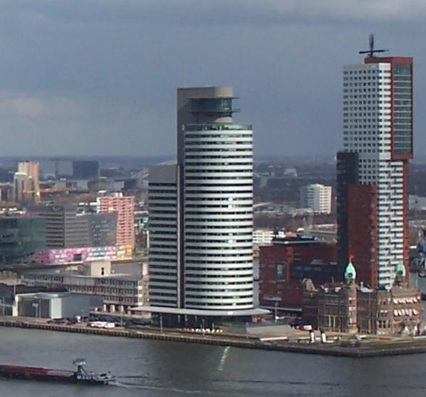 World Port Center